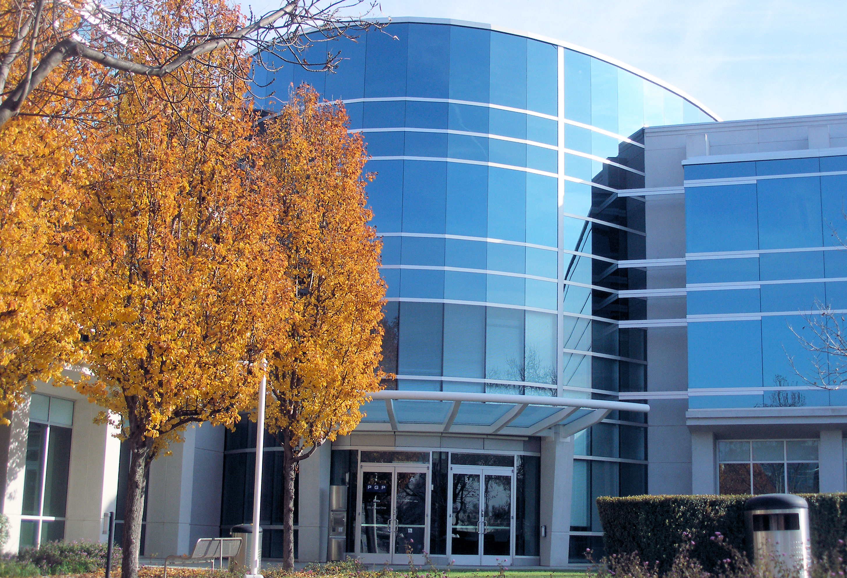 PGP Corporation headquarters in Menlo Park, California. Photographed by user Coolcaesar on December 19, 2009.